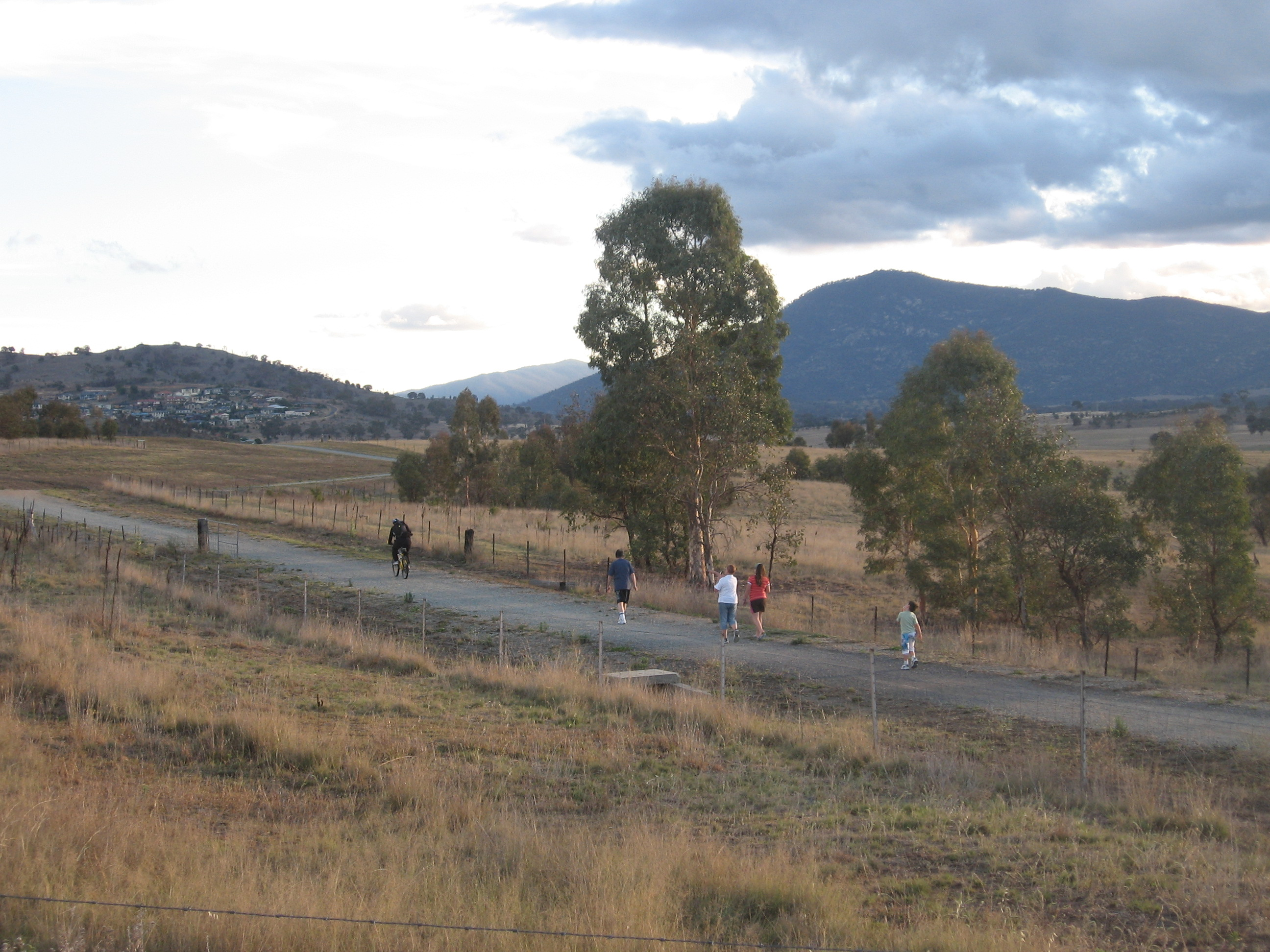 Author/source - I took this photo myself Tag